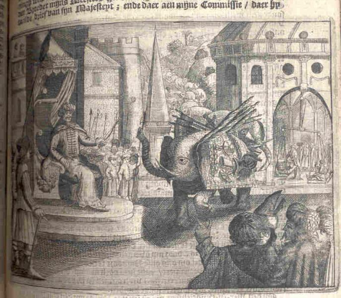 A Dutch account of Sir Thomas Roe's travel to Jahangir's court, published in 1656 Source: ebay, June 2004 "An extremely rare work on the East Indies. Provenance belonging to a German Archive. A very handsome & unusual biding (20th century?), new endpapers. This is the entry of the British Library. Only one copy in the UK. One in the KB in the Netherlands (See British Libray entry below). Roe, Sir Thomas. Title Details: Journael van de reysen ghedaen door ... Sr T. Roe ... afgevaerdicht naer Oostindien aen den Grooten Mogol ... Uyt het Engels vertaalt, ende met copere figuren verciert. Publisher: Amsterdam : Iacob Benjamin, 1656 4o. Physical desc.: pp. 126."